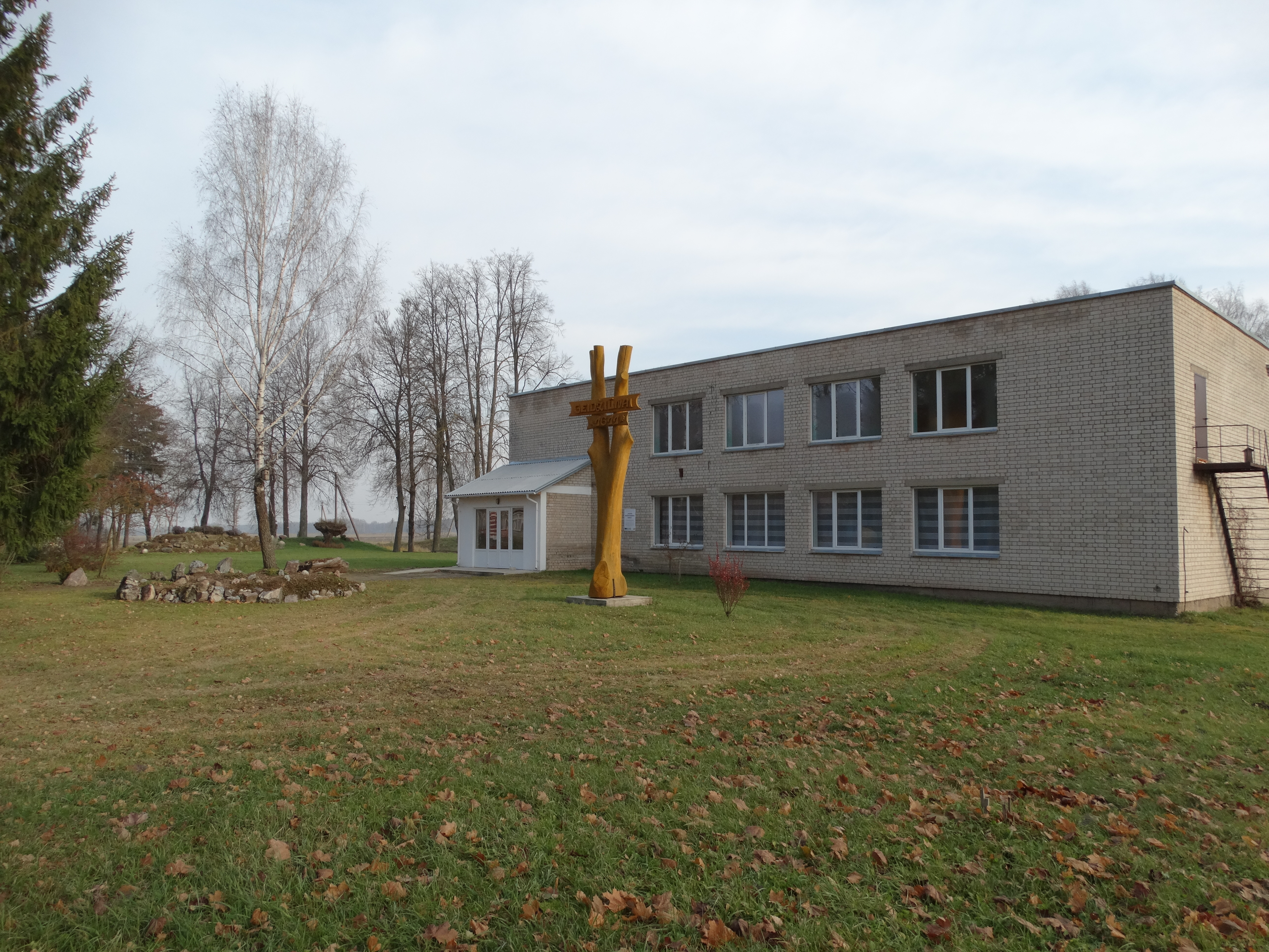 Community house, Geidžiūnai, Biržai district, Lithuania